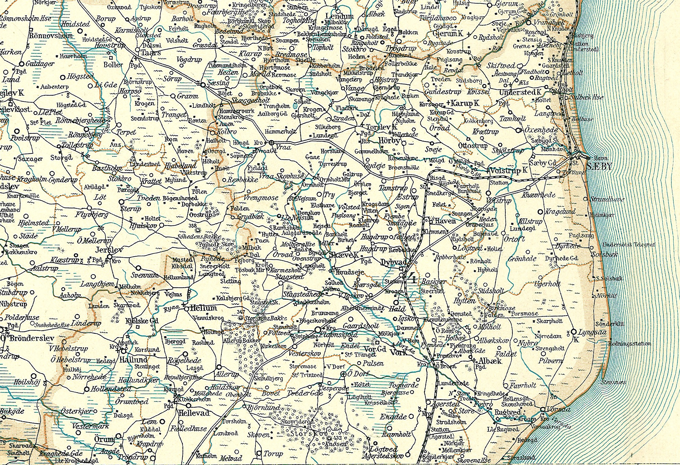 Map of Dronninglund Herred Hjørring County in Denmark